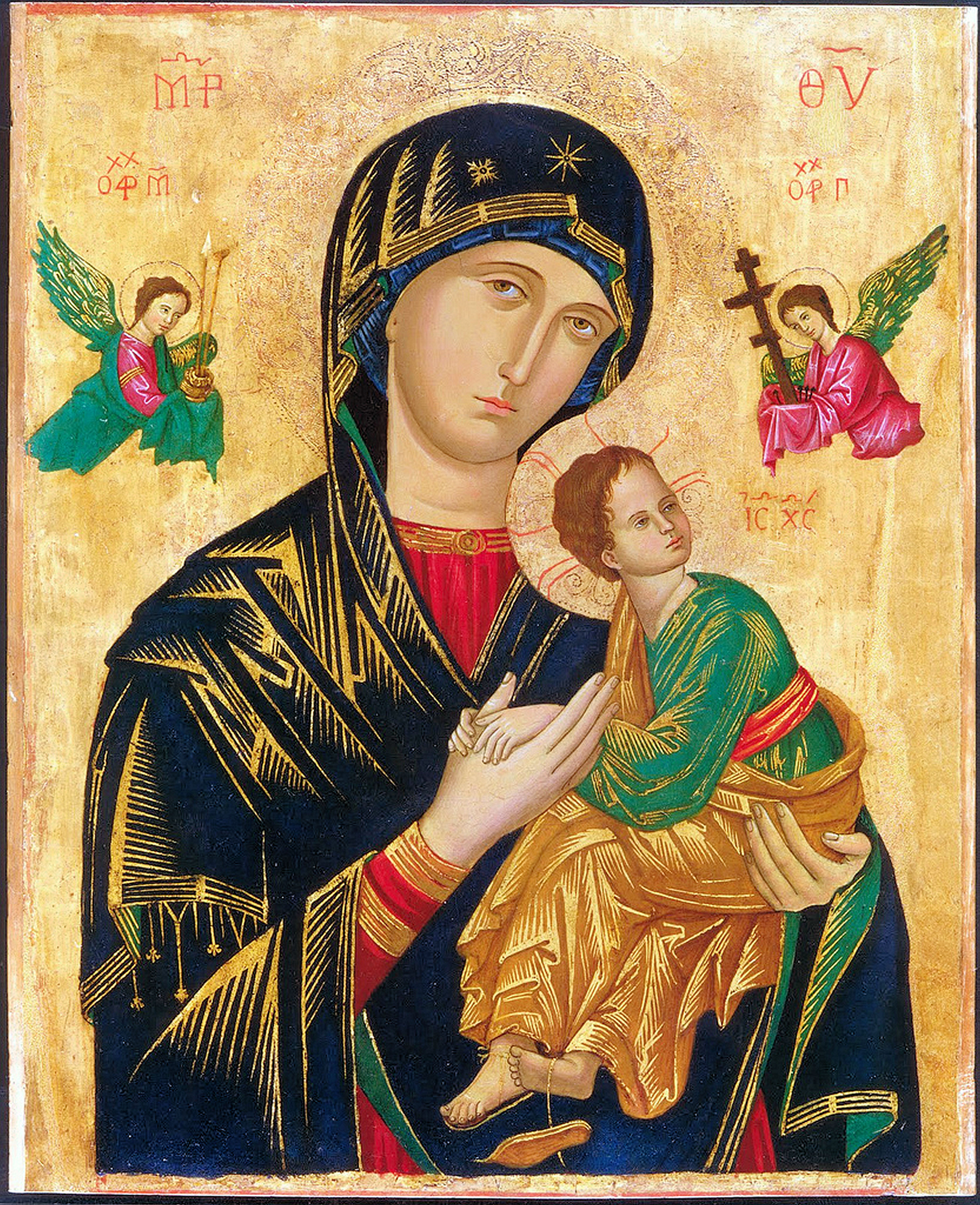 Actual poster of the Our Mother of Perpetual Help scanned digitally for public distribution from the Redemptorist Priests in Baclaran, Rizal, Philippines. Bought for 100 pesos at their market. Cleaner photo, restored.